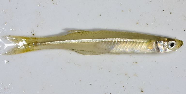 Menidia beryllina from Mare Island, Solano Co., CA, USA